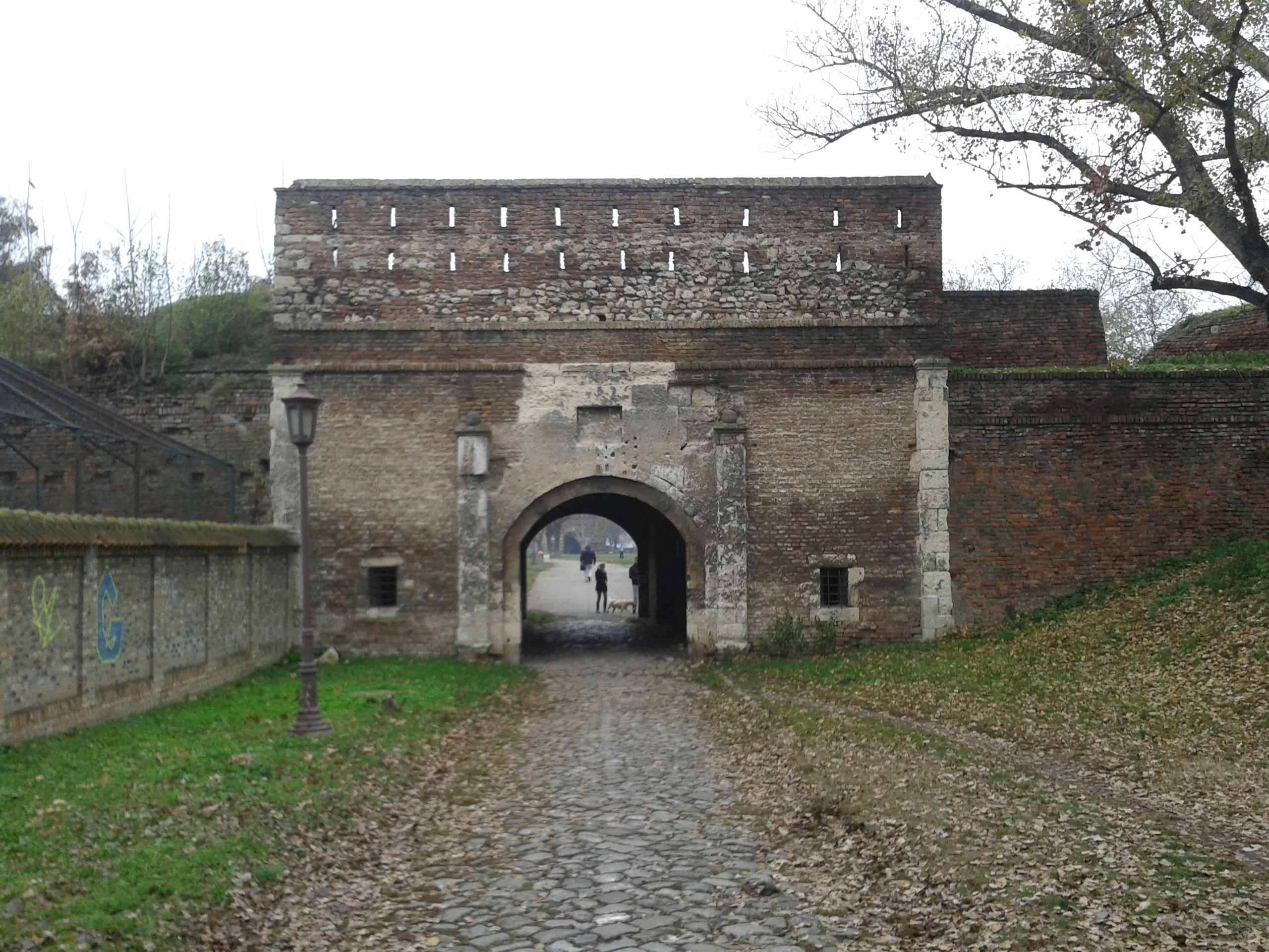 Vidin Gate of Belgrade Fortress.